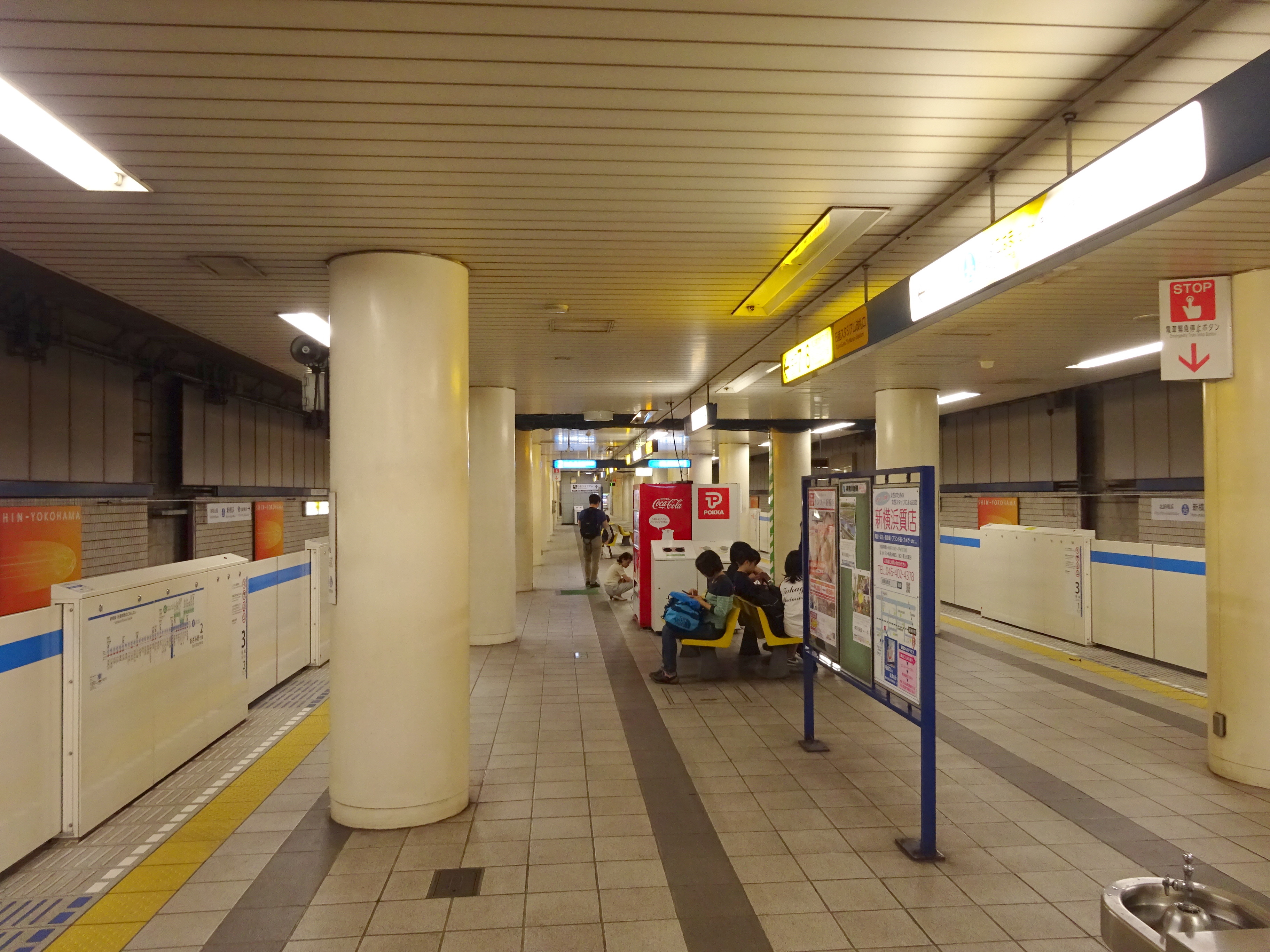 Platforms of Shin-Yokohama Station(Yokohama Municipal Subway)